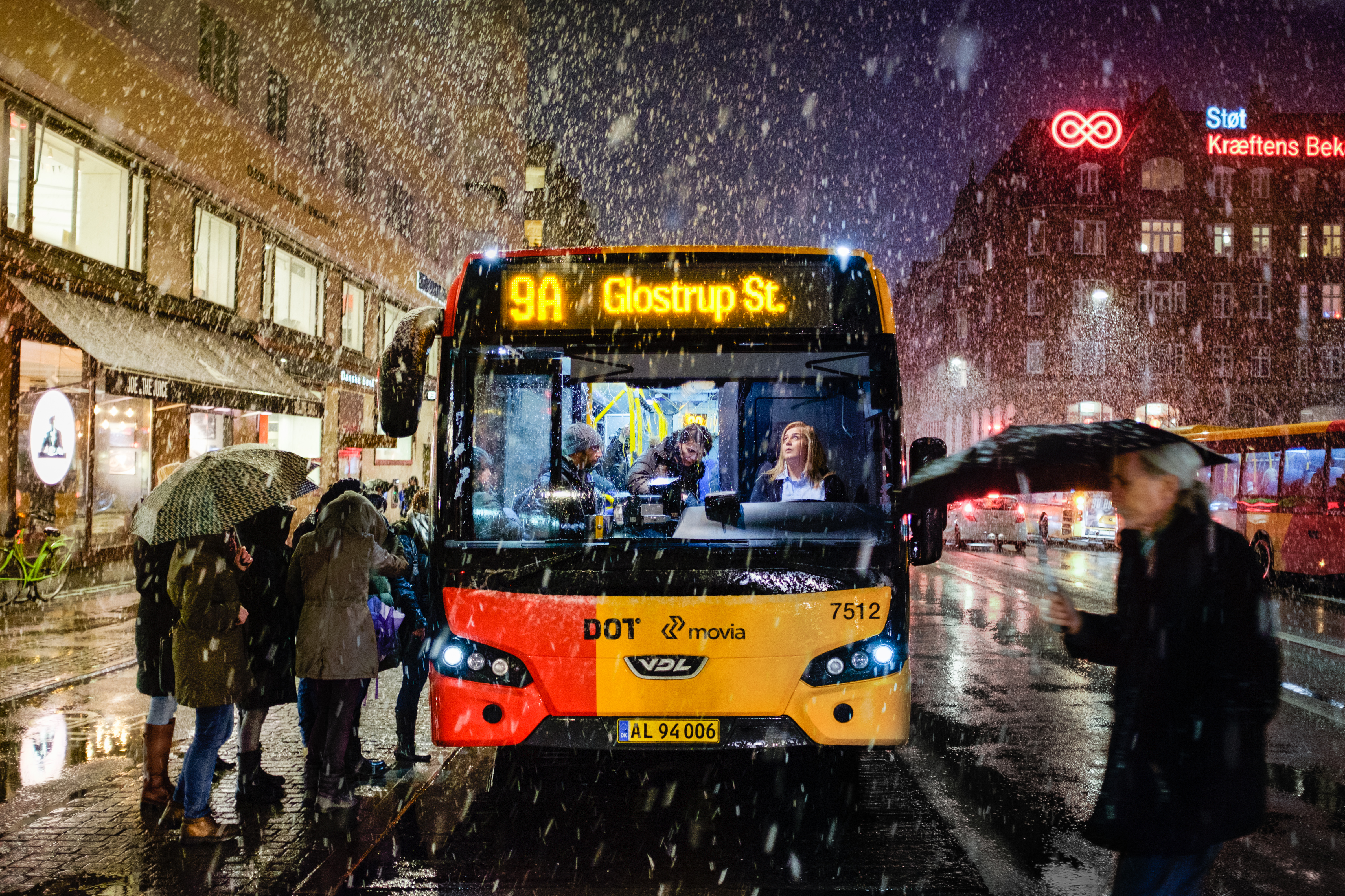 Took this on a snowy day going home from work. People getting on the bus 9A to Glostrup station, at Christianshavn in Copenhagen, Denmark. The photo is under Creative Commons license, use it as you will, just give credit :-) Other keywords: snow, sne, københavn, danmark, movia, ht bus, people, public transport, offentlig transport, winter, vinter